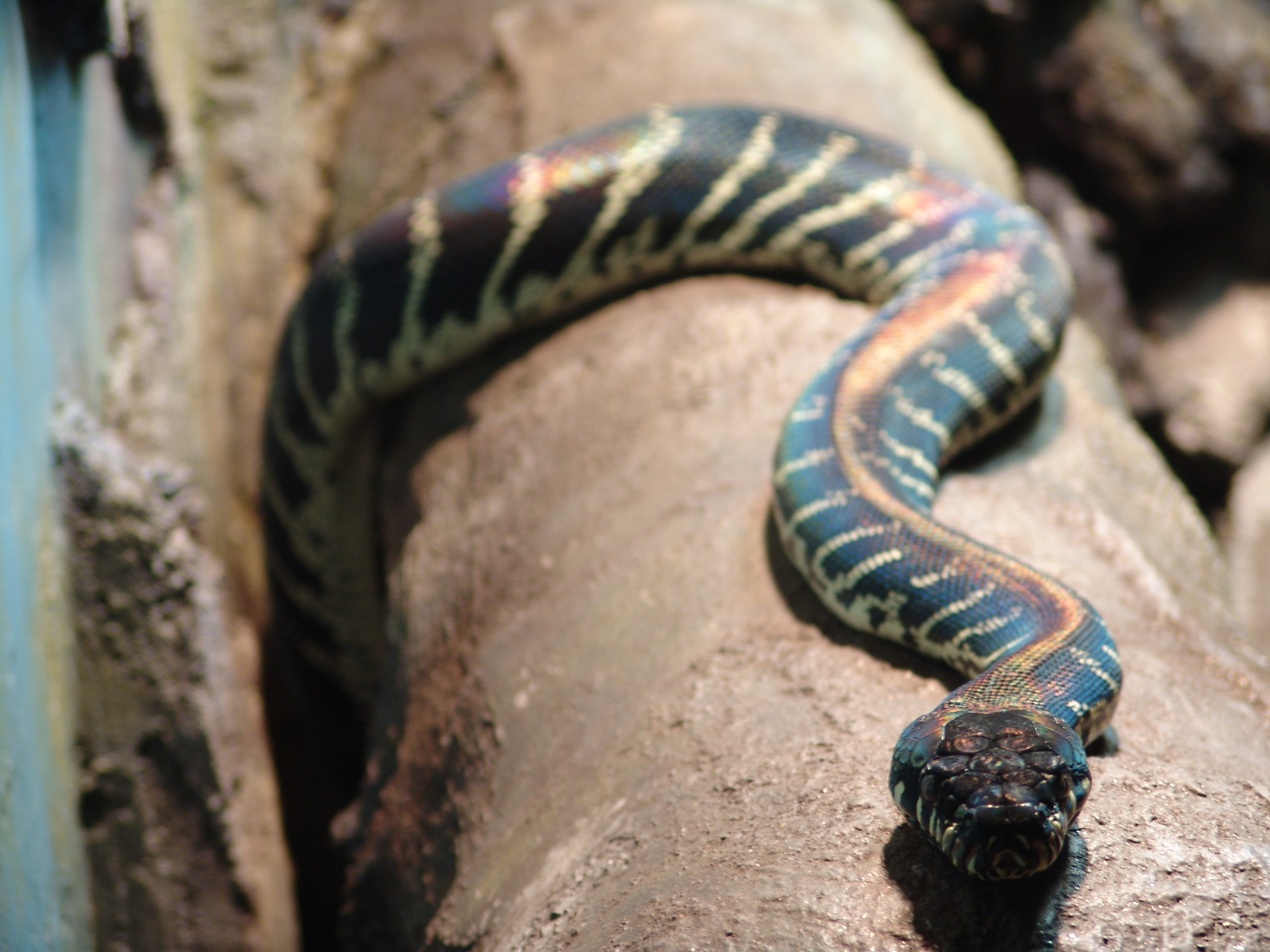 Boelen Python at Wilmington's Serpentarium. I took the picture.